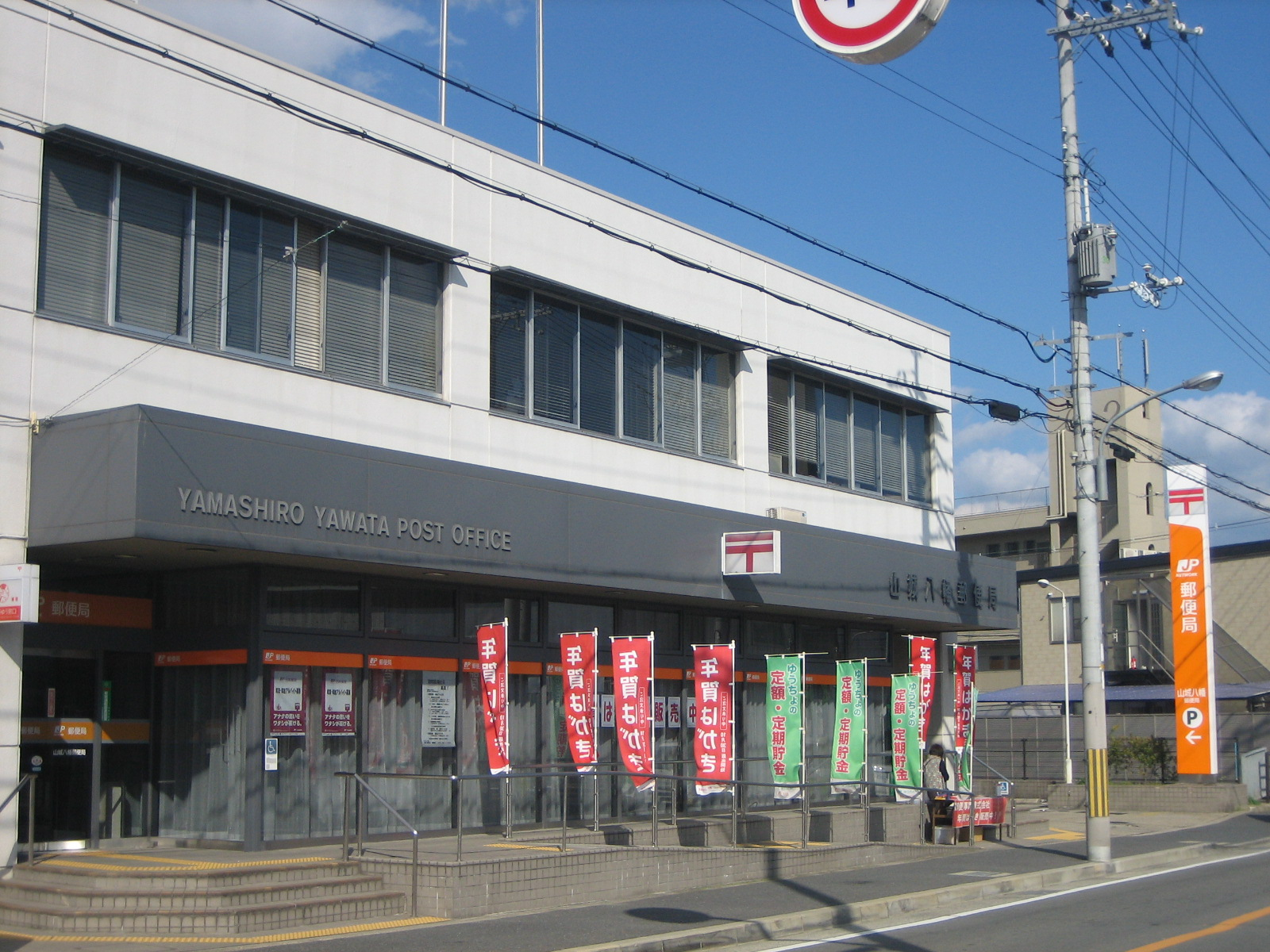 Yamashiro-yawata post office in Kyoto, Japan